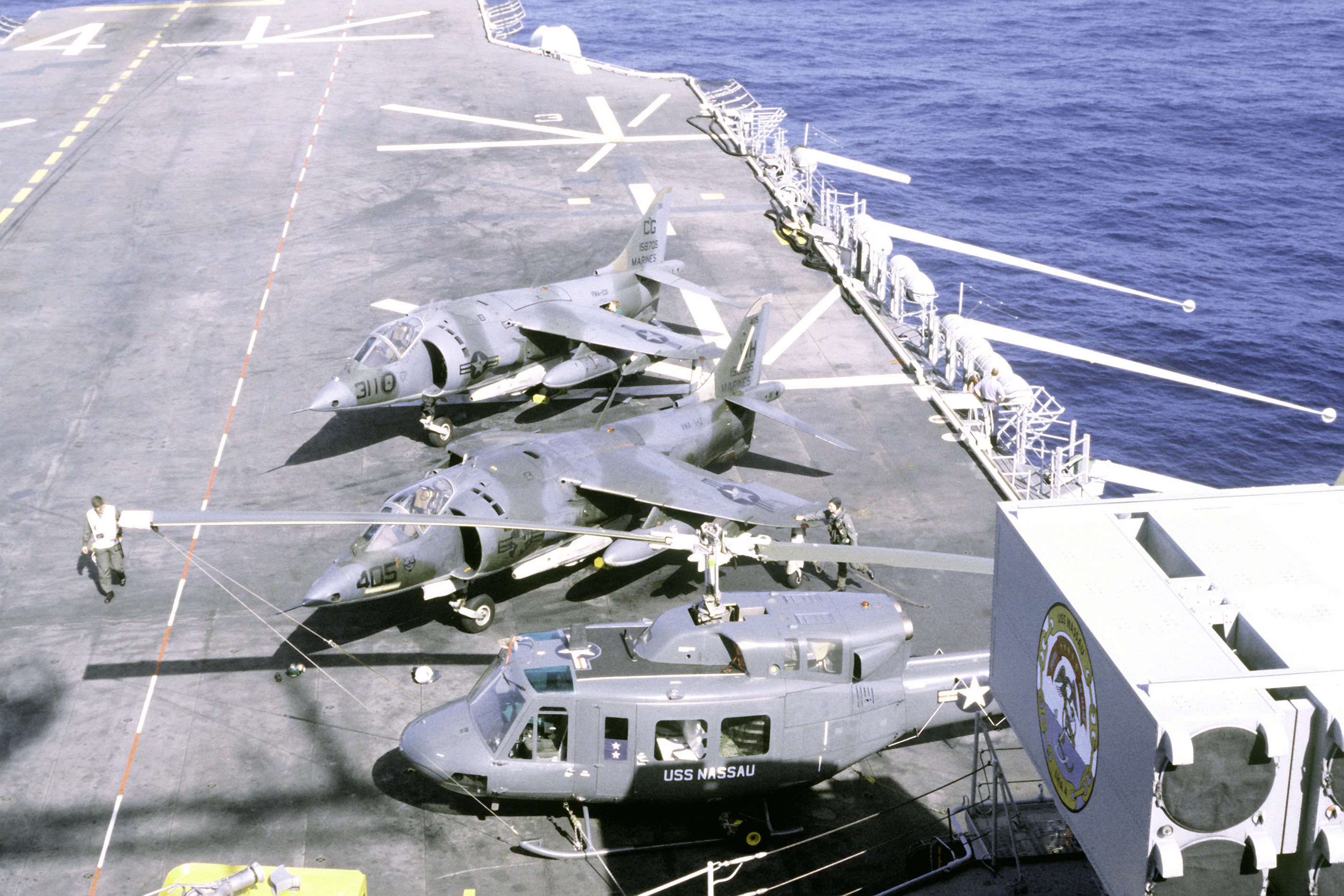 Two AV-8C Harrier aircraft and a UH-1N Twin Huey helicopter are parked on the flight deck of the U.S. amphibious assault ship USS Nassau (LHA-4) on 4 January 1982. The two Harriers belonged to U.S. Marine Corps light attack squadrons VMA-542 Tigers (BuNo 158956, tail code "WH"), and VMA-231 Ace of Spades (BuNo 158705, tail code "CG"). 158705 was retired to AMARC as 7A0028 on 26 September 1986, but 158956 crashed at MCAS Cherry Point, North Carolina (USA), on 4 March 1982.